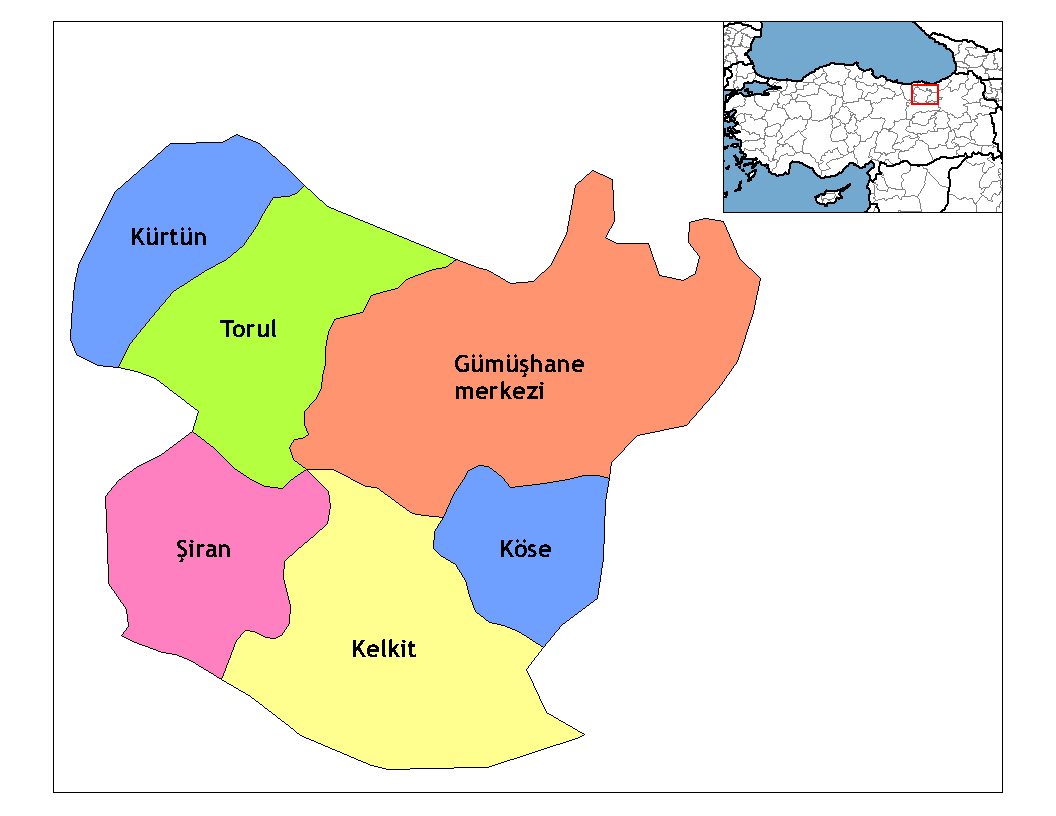 Map of the districts of Gümüşhane province in Turkey. Created by Rarelibra 20:56, 1 December 2006 (UTC) for public domain use, using MapInfo Professional v8.5 and various mapping resources. Edited by One Homo Sapiens Corrected text where İ,Ş,ı,ğ,or ş occurs in name. Source: [statoids-com]. Increased font size and enhanced color differences among adjacent districts.